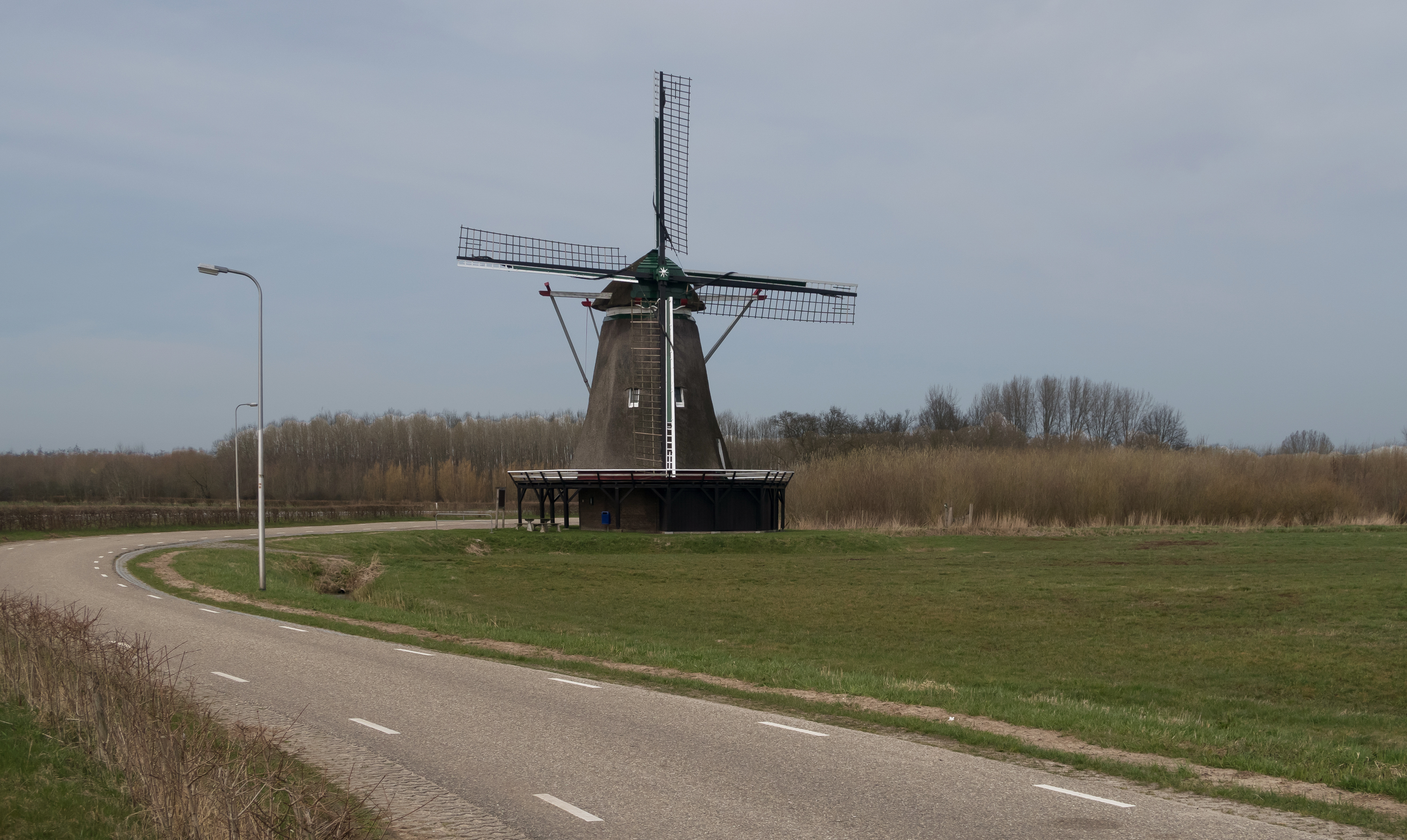 Windesheim, windmill: de Windesheimer Molen